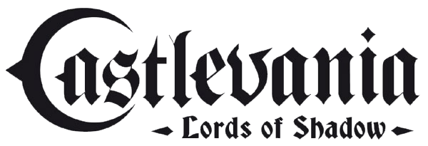 Logo of Castlevania: Lords of Shadow video game